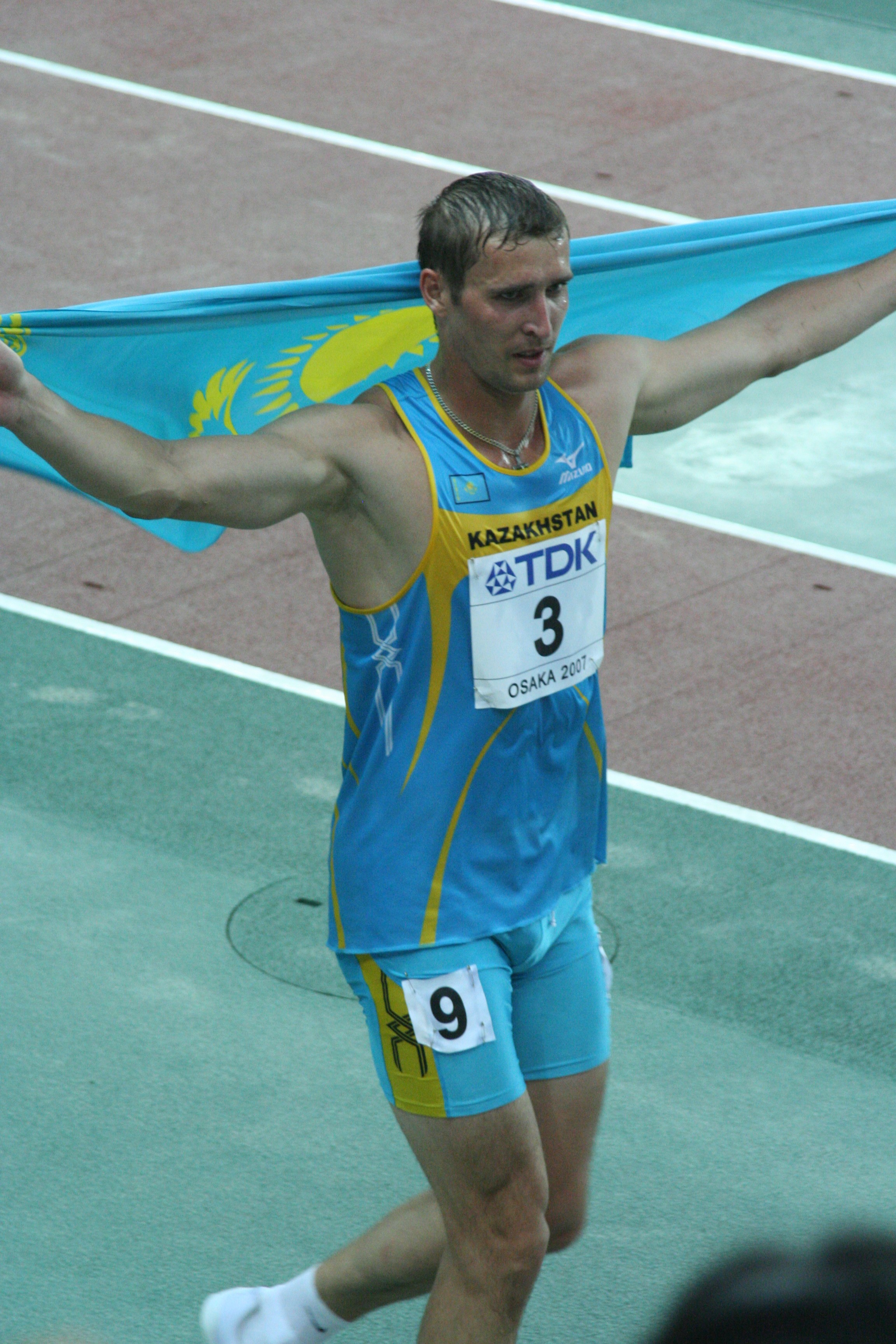 World Athletics Championships 2007 in Osaka - Dmitri Karpov after winning the decathlon bronze medal